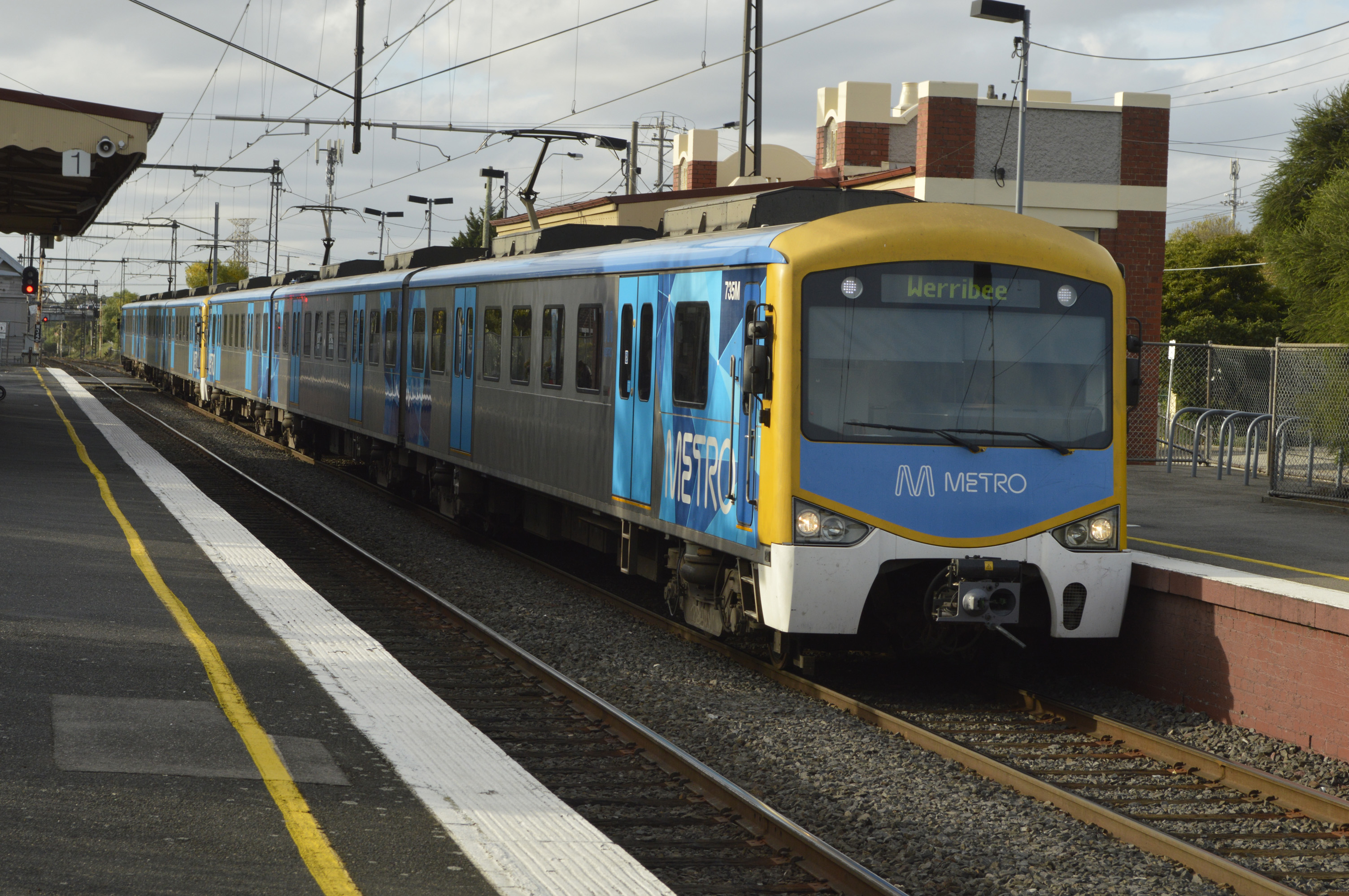 A Metro Trains Melbourne Siemens arrives at Spotswood bound for Werribee.